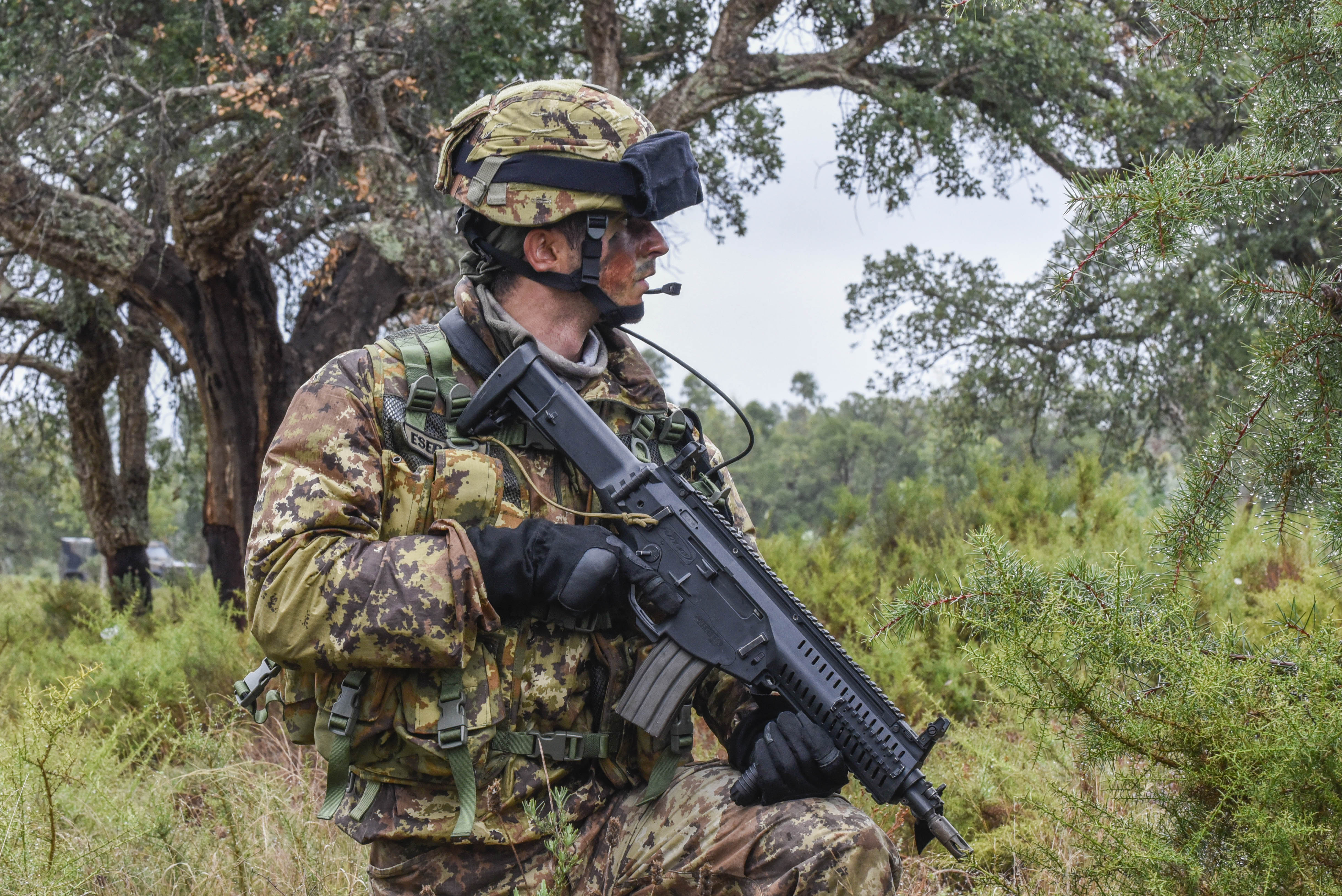 Italian Lagunari reconnaissance member in a security patrol in Santa Margarida, Portugal, during JOINTEX 15 as part of NATO’s exercise TRIDENT JUNCTURE 15 on November 4, 2015 Photo: Sgt Sebastien Frechette, PA Technician VL06-2015-387-41